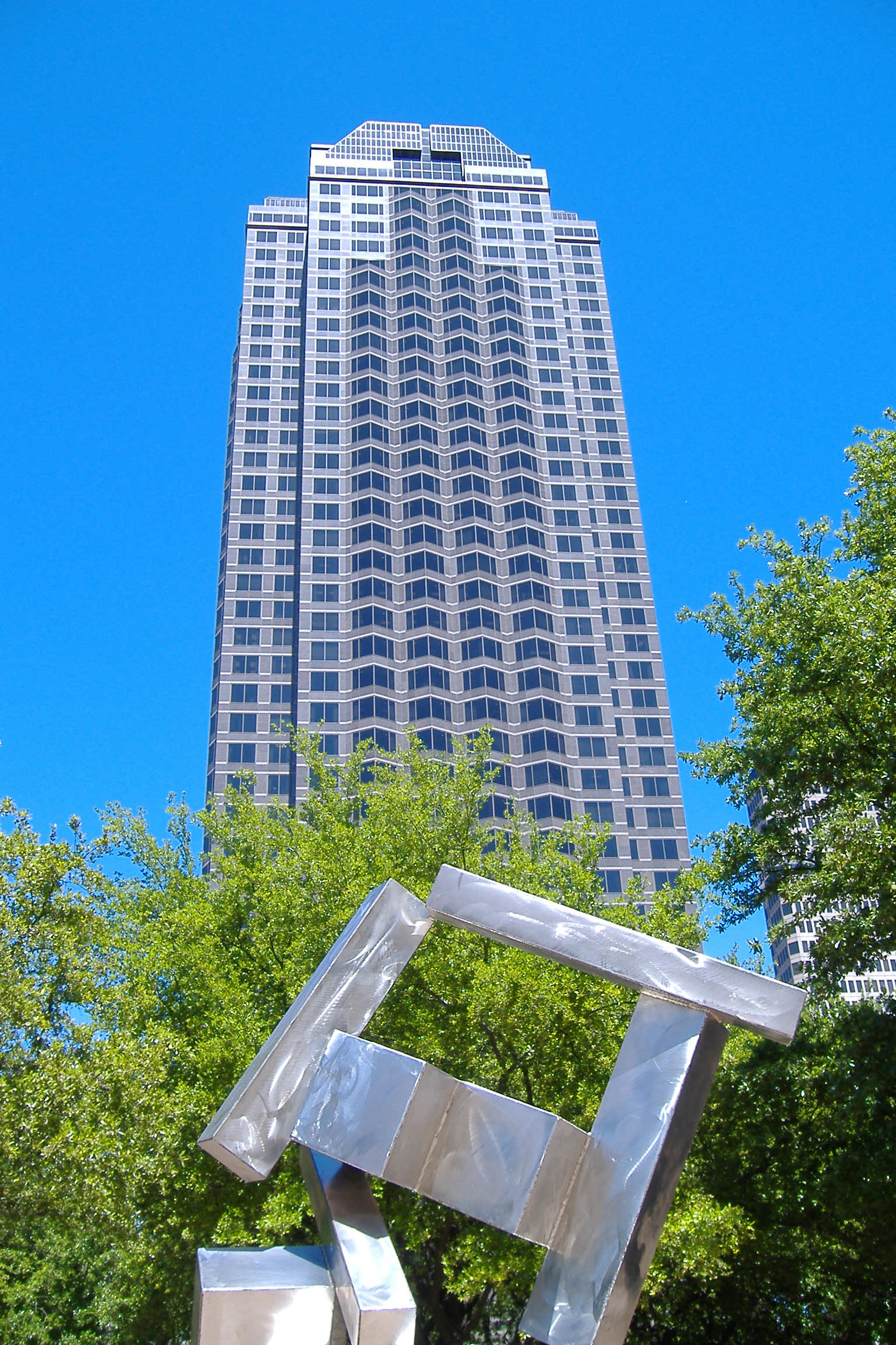 The Trammell Crow Center in downtown Dallas, Texas.